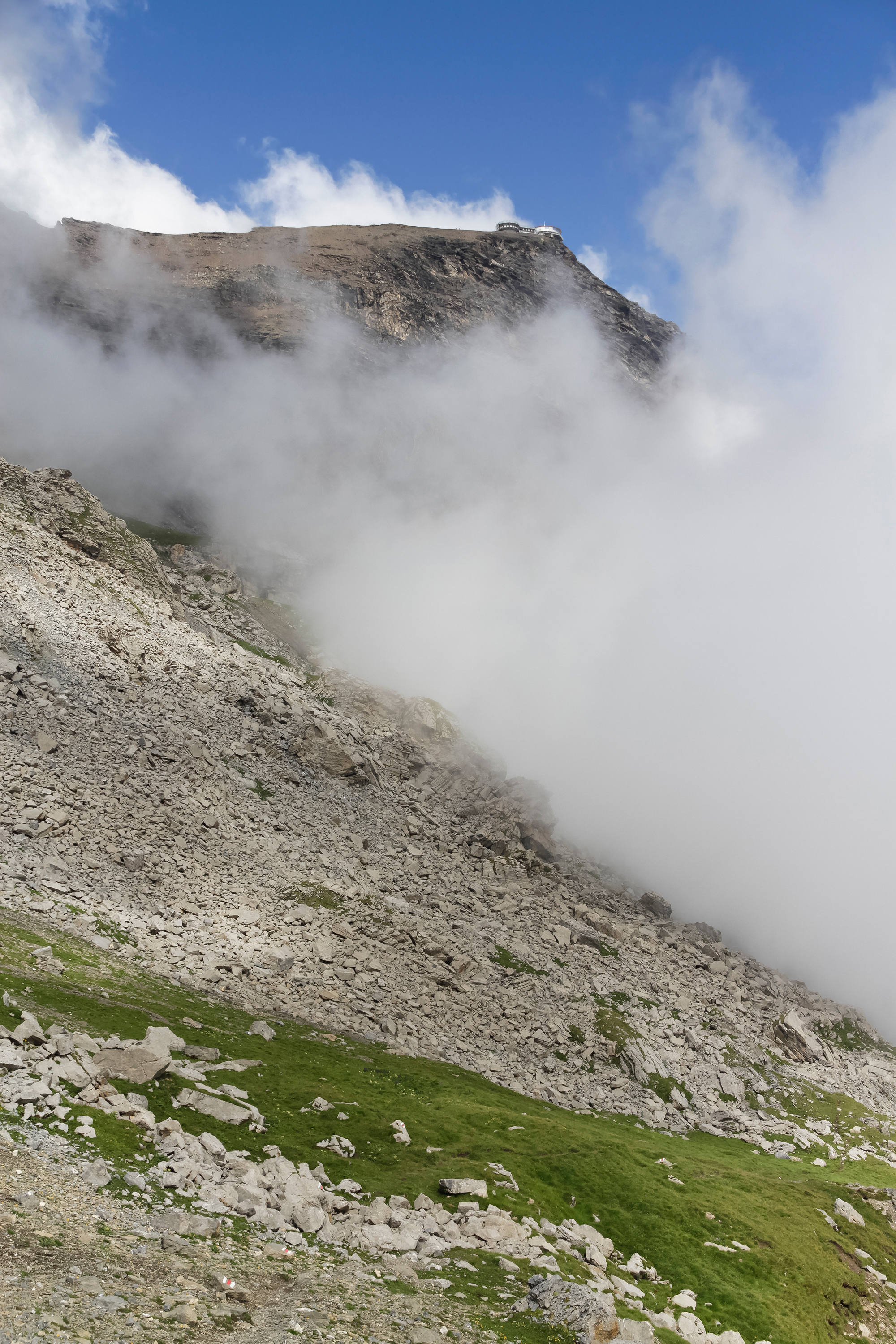 The summit of Schilthorn reveals itself above the clouds as seen from the ascent between Poganggen (2,039 m) and Roter Herd (2,683 m) in the canton of Bern, Switzerland.